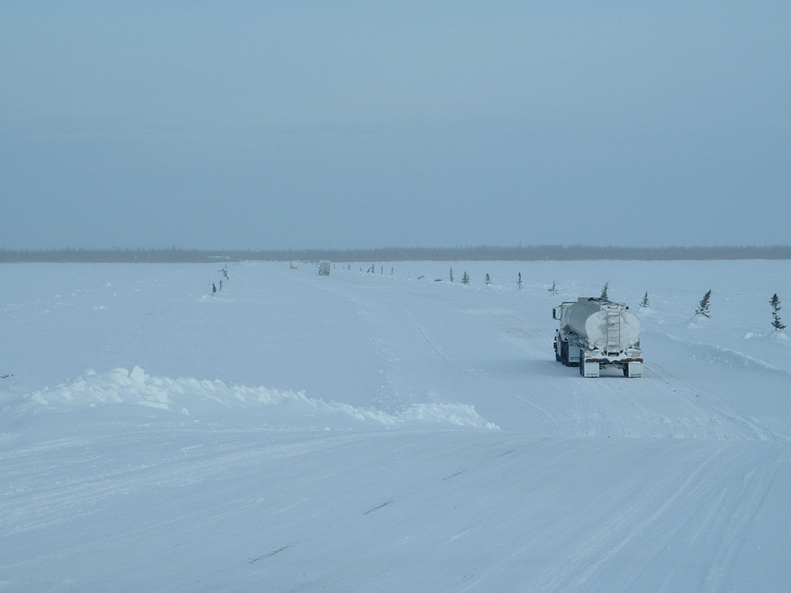 Vehicles crossing the Albany River on the winter road running from Moosonee to Attawapiskat in Northern Ontario, Canada. Edge of road is marked by small trees. Heavy vehicles must maintain wide spacing and slow speeds.